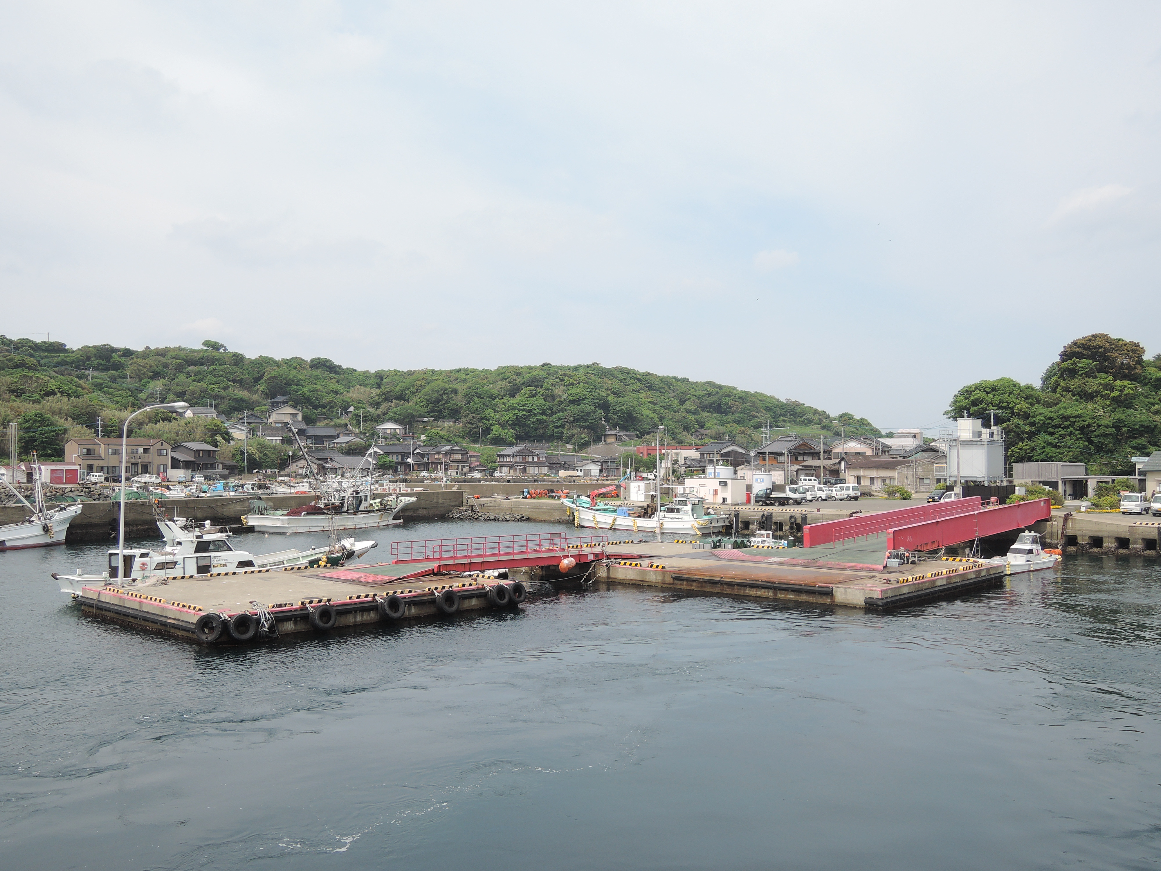 Aoshima port (Aoshima, Matsuura, Nagasaki, Japan)